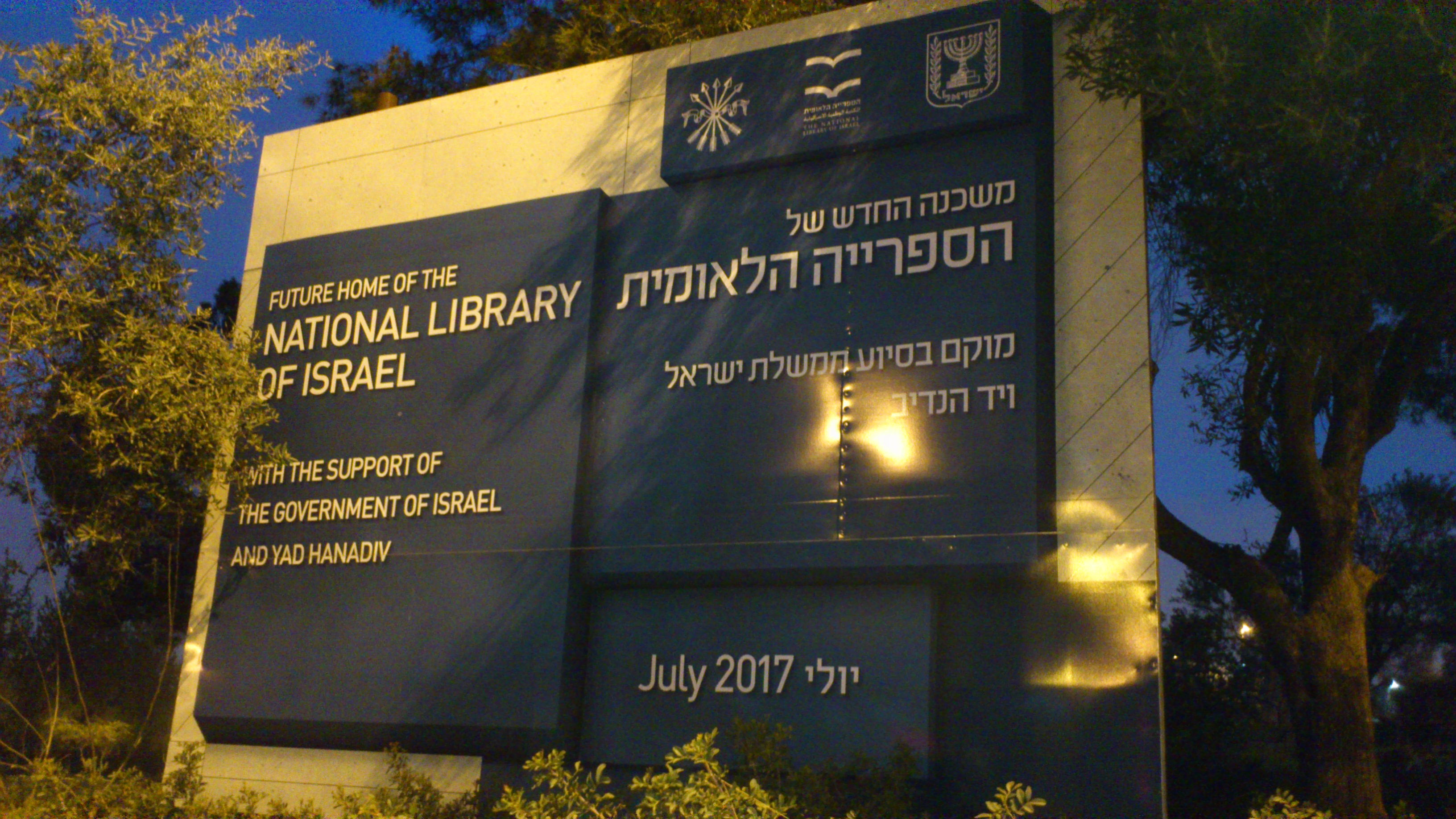 National Library of Israel